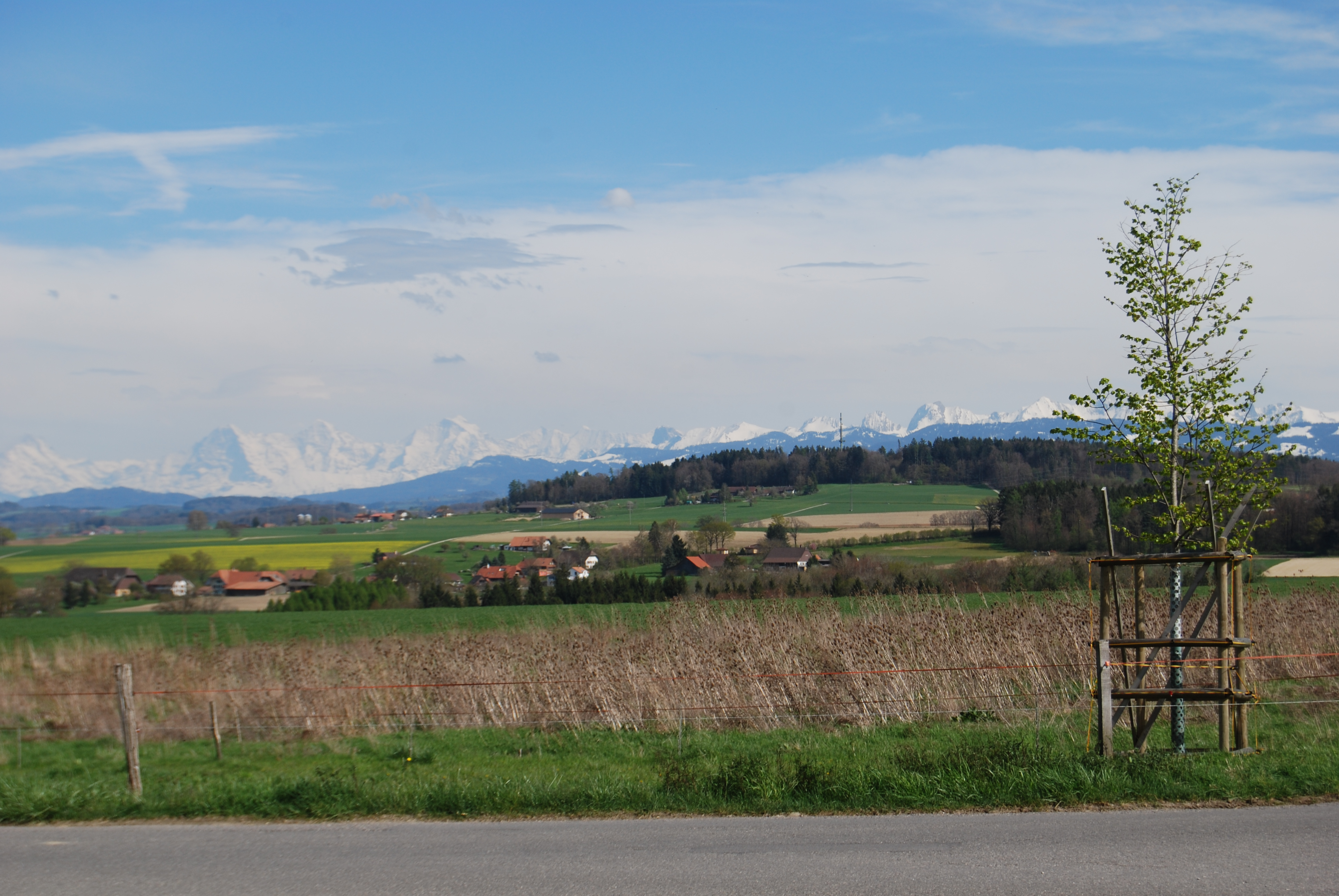 Cressier, view to Kleinguschelmuth and the Alps, canton of Fribourg, Switzerland